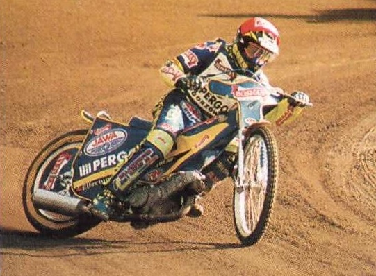 Tony Rickardsson in "Stal" - season 1998.